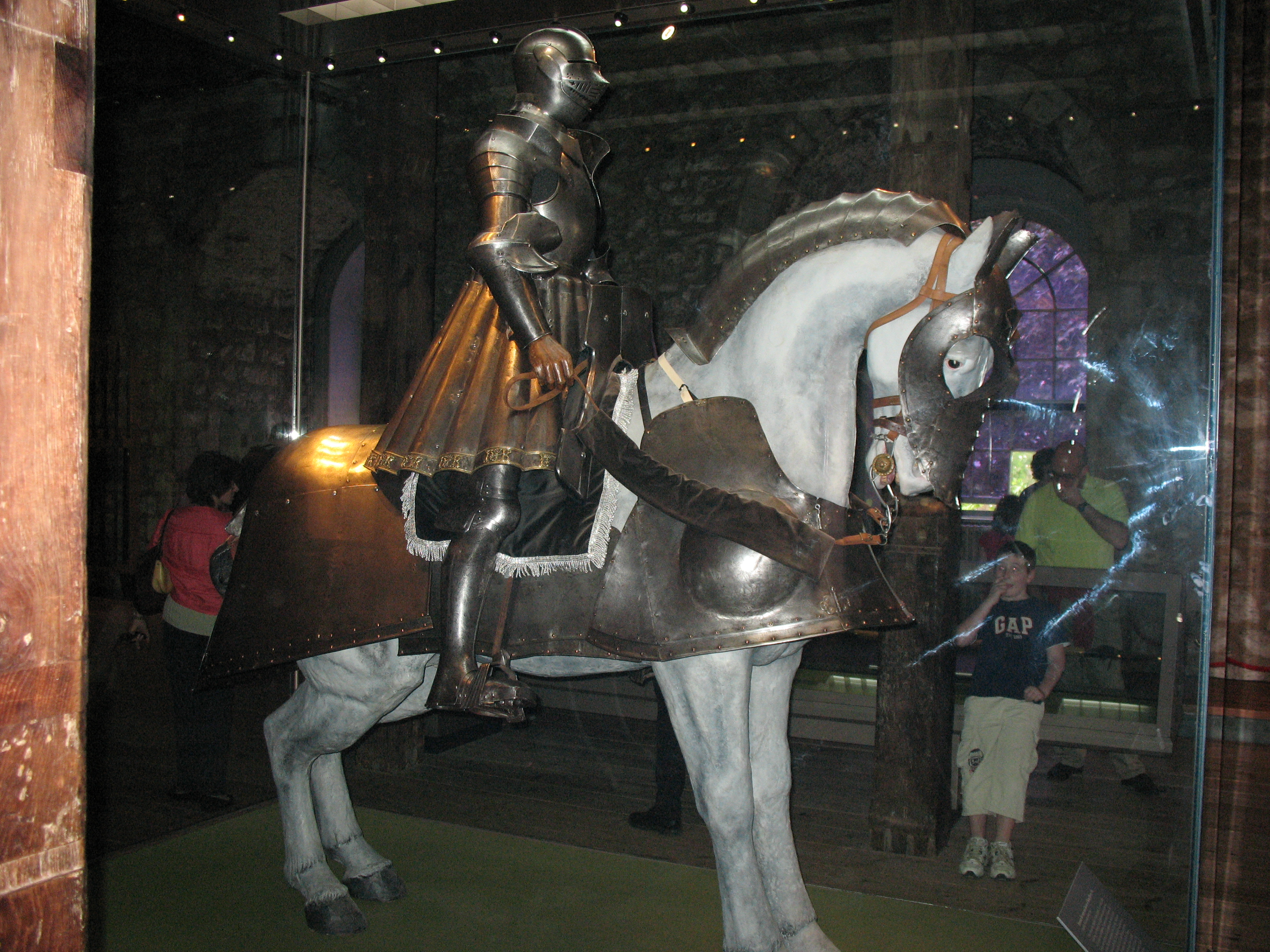 City of London